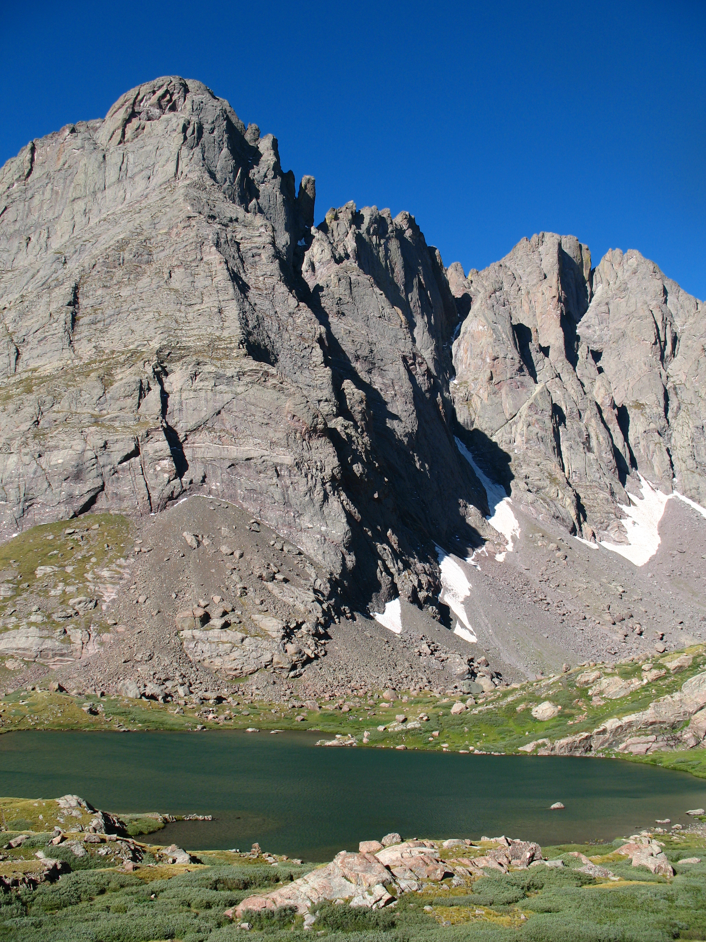 View of the Crestone Needle with the Lower South Colony Lake in the foreground. Colorado, USA.